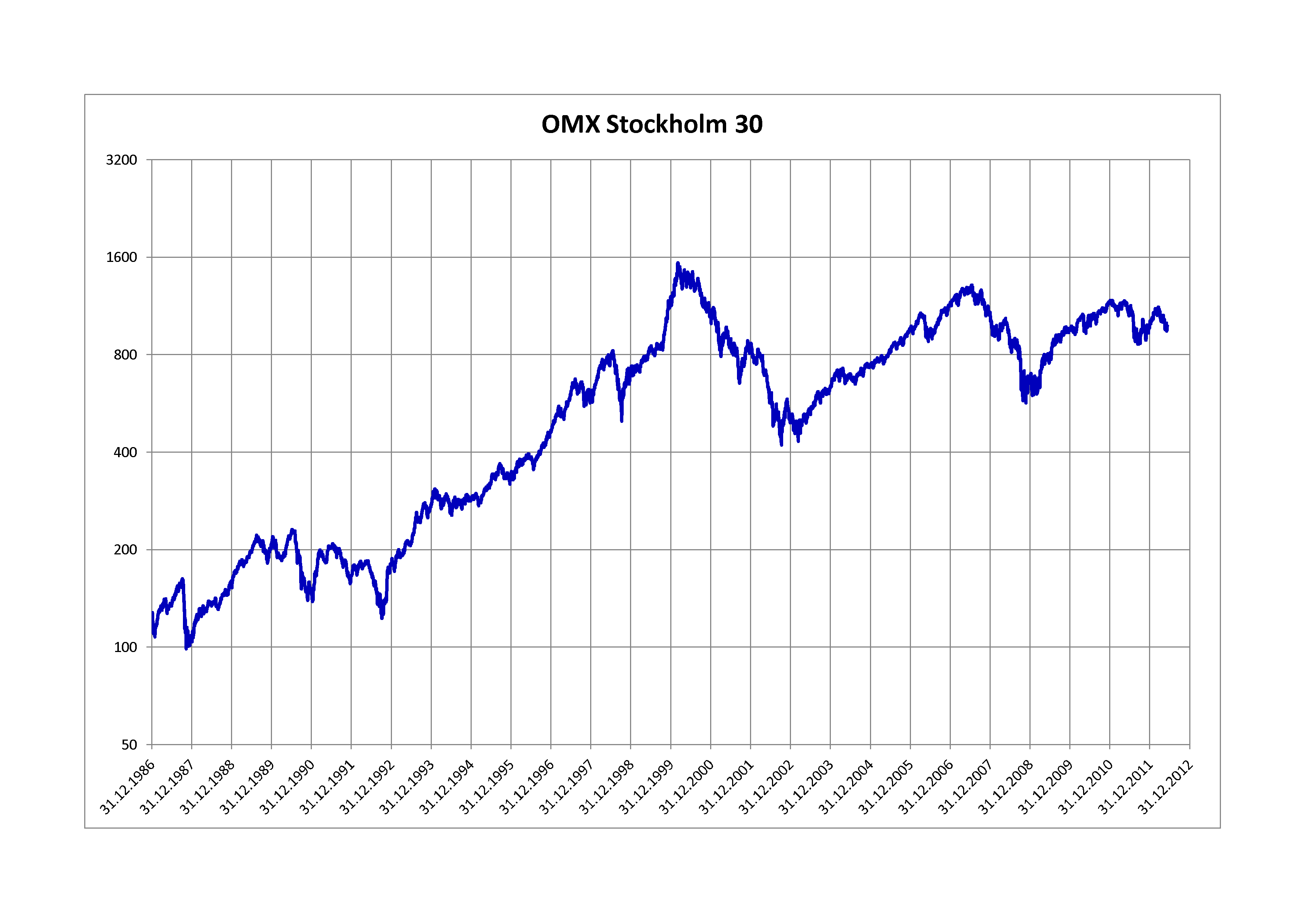 OMX Stockholm 30 from December 1986 to June 2012 (daily closings)